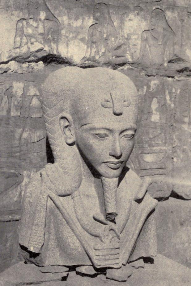 Granite statue of the Egyptian god Khonsu, late 18th Dynasty, New Kingdom. Now in Cairo Museum. Photo by Beato.